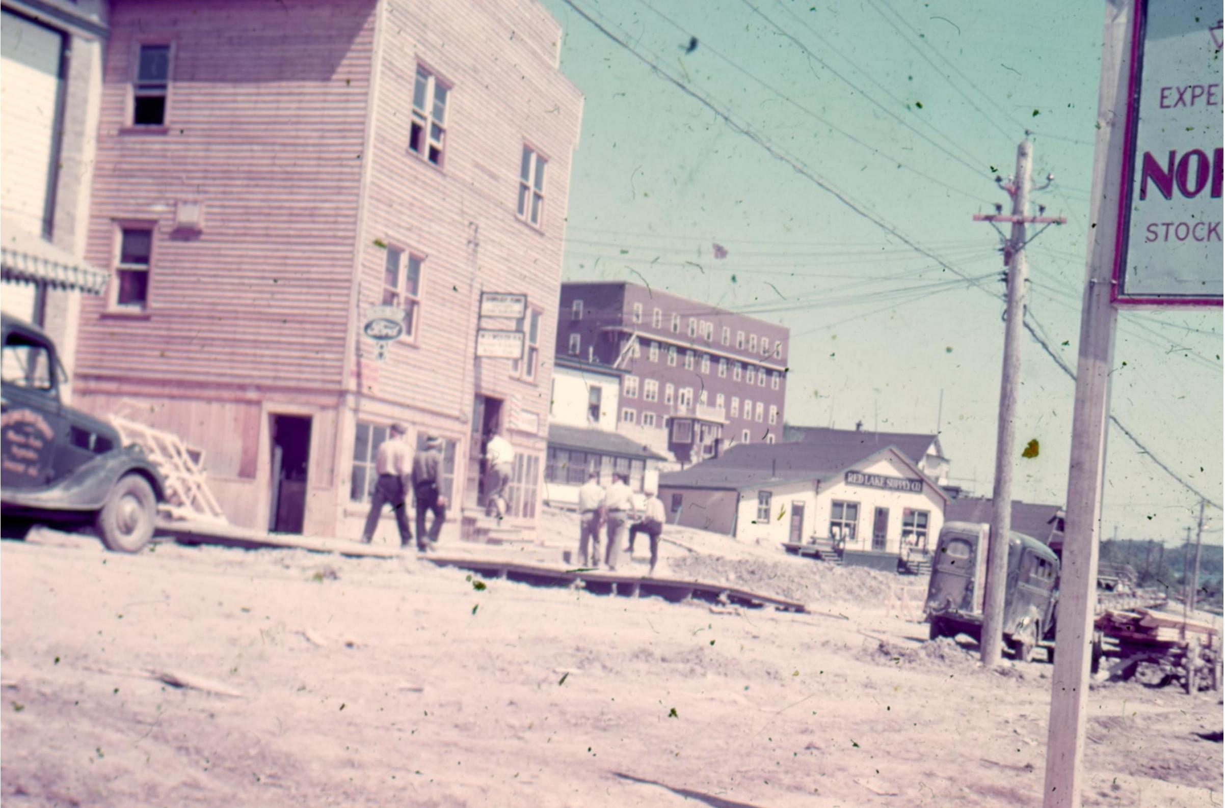 Picture of Downtown Red Lake, Ontario , Canada in 1936